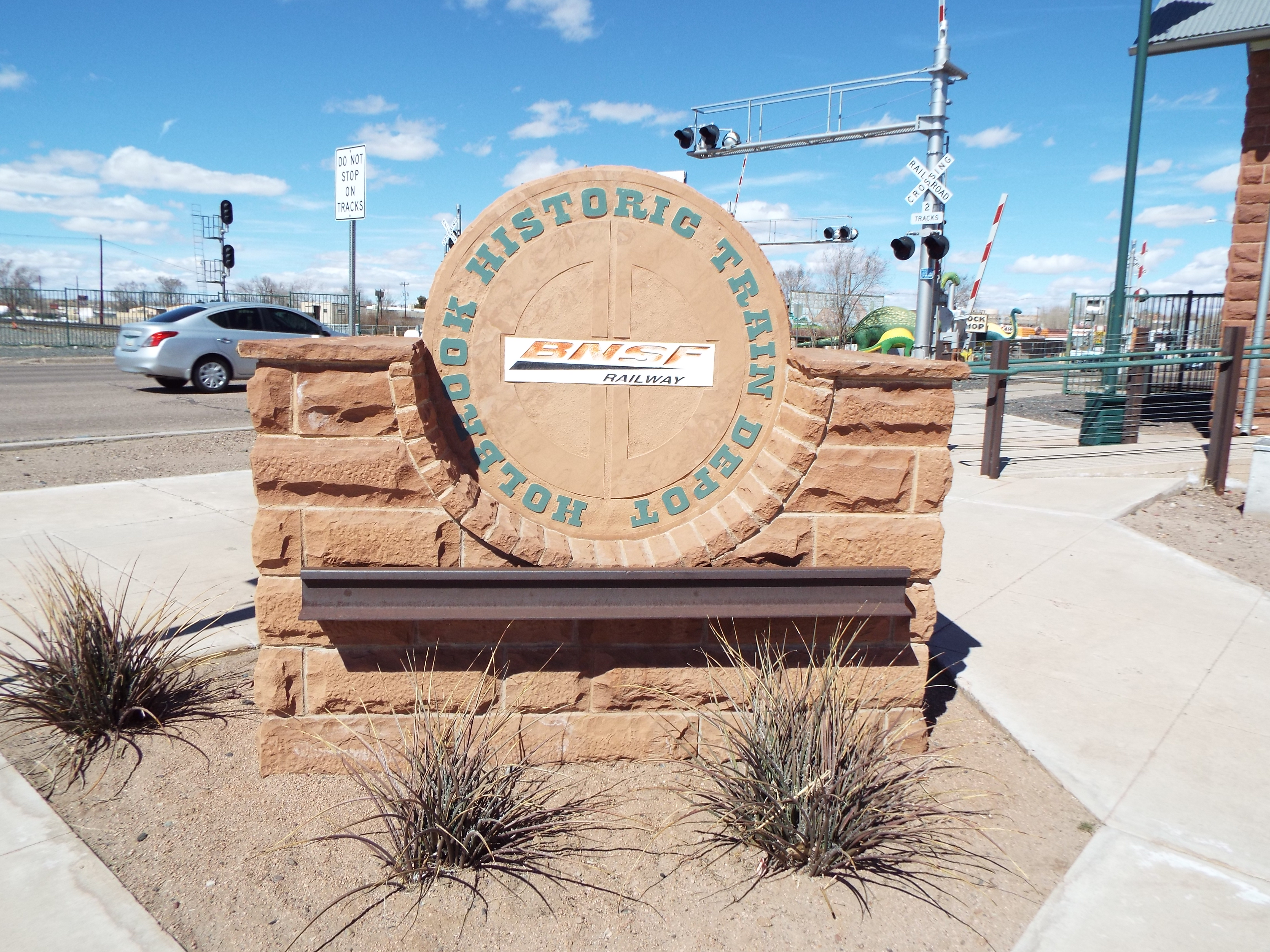 BNSF Historic Train Depot-Marker in Holbrook, Arizona.